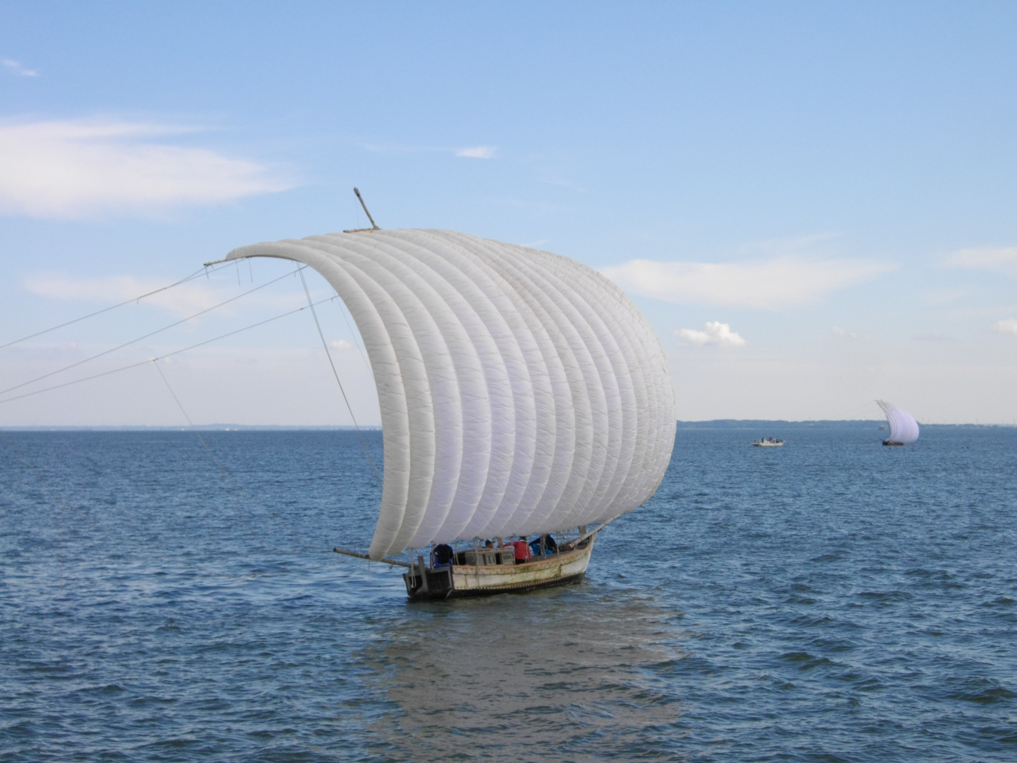 Hobikibune